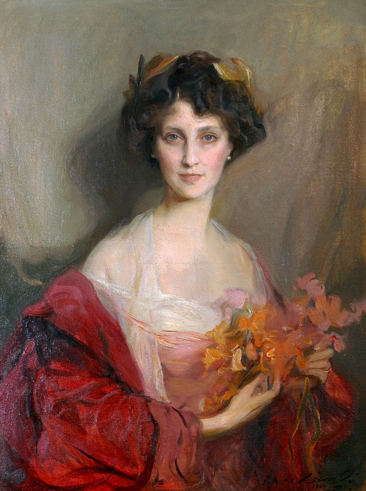 Philip Alexius de Laszlo: Portrait of Winifred Anna Cavendish-Bentinck (née Dallas-Yorke), 6th Duchess of Portland (1863-1954), Bird protectionist, philanthropist, Mistress of the_Robes to Queen Alexandra..... Or shorter: Winifred Cavendish-Bentinck, Duchess of Portland